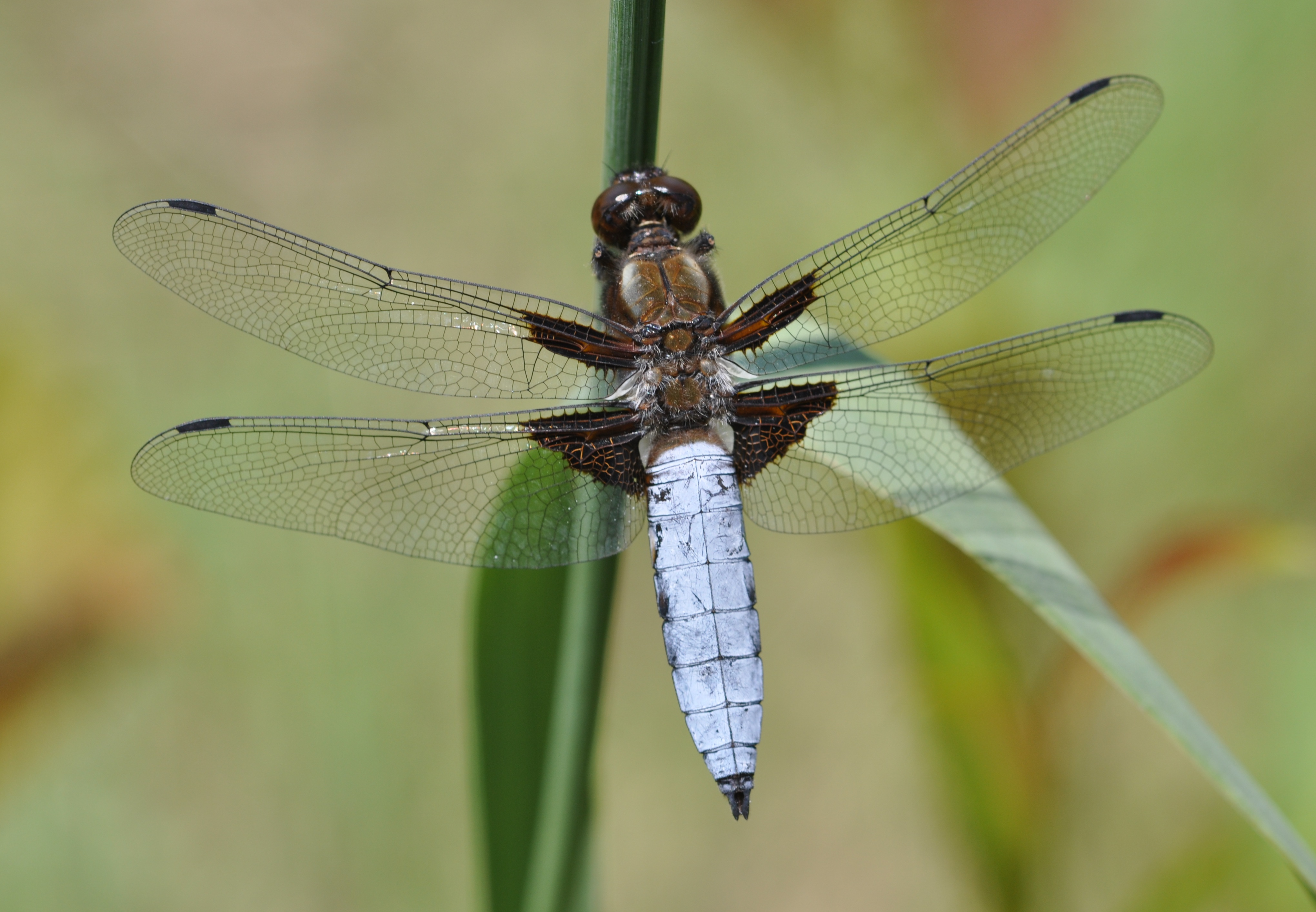 Broad-bodied Chaser (Libellula depressa) near the old airstrip, Frankfurt, Germany.